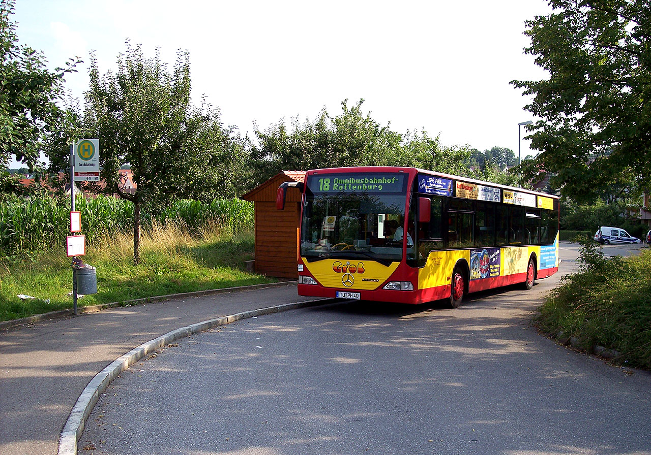 A Mercedes-Benz Citaro of Omnibus Groß, Rottenburg (working on behalf of Stadtverkehr Tübingen) at the Hagelloch terminus in Tübingen.